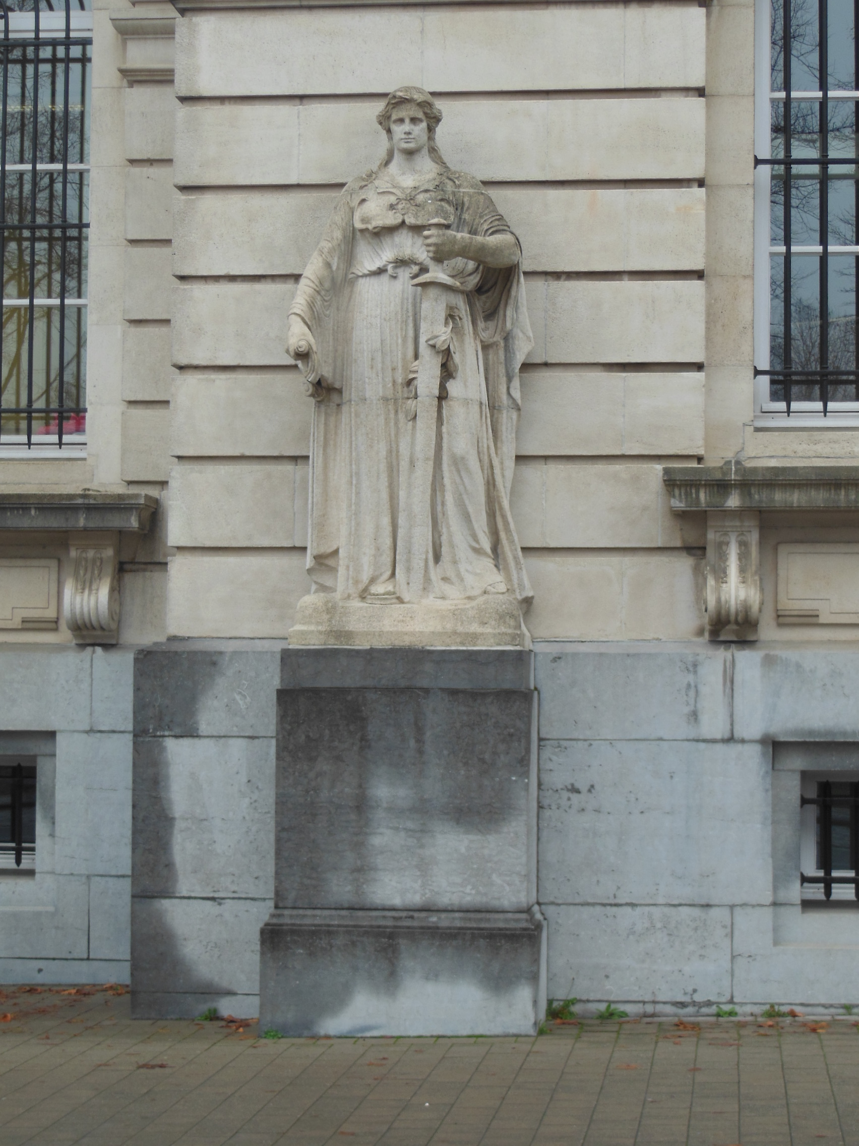 A statue of the Roman deity Minerva at the entrance of the Royal Military Academy, Belgium. With the left hand Minerva holds a sword that is wreathed by a laurel branch.